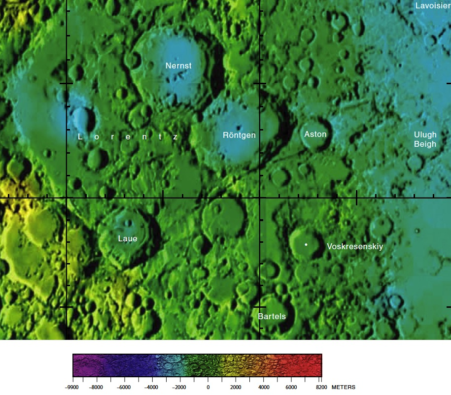 Part of the USGS Moon far side chart